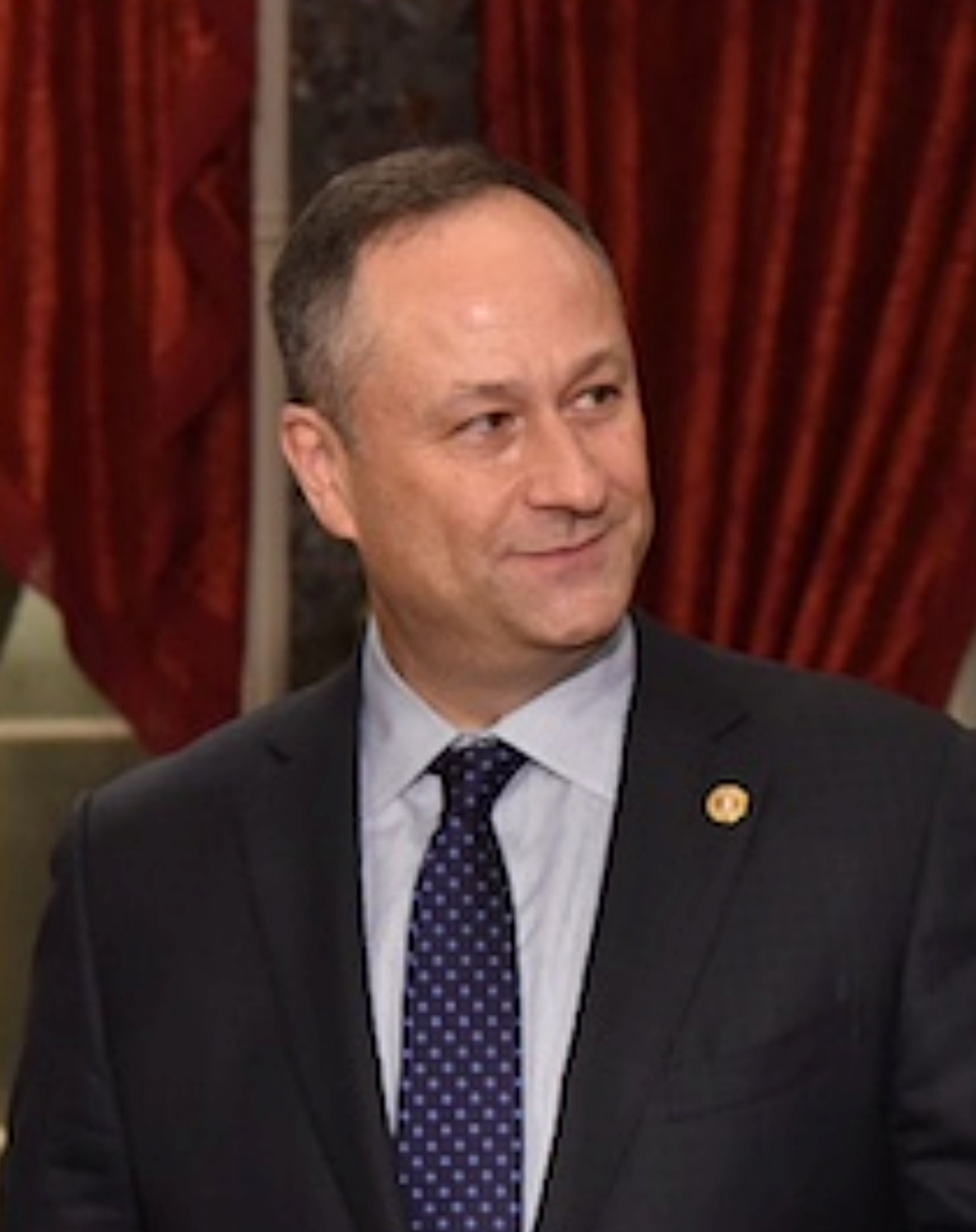 Kamala Harris takes oath of office as United States Senator by Vice President Joe Biden in January 3, 2017.